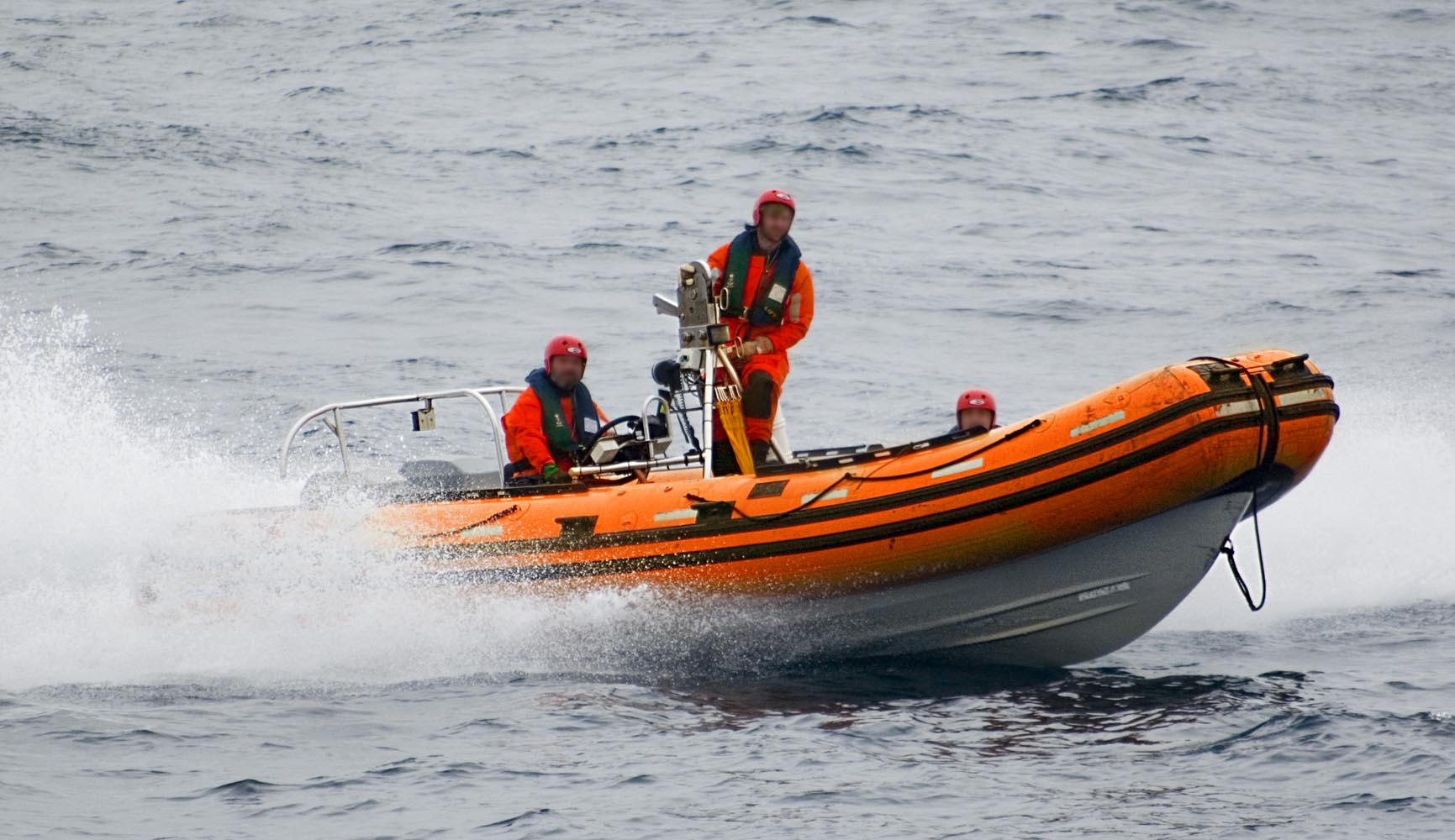 A Danish navy RHIB making speed through water